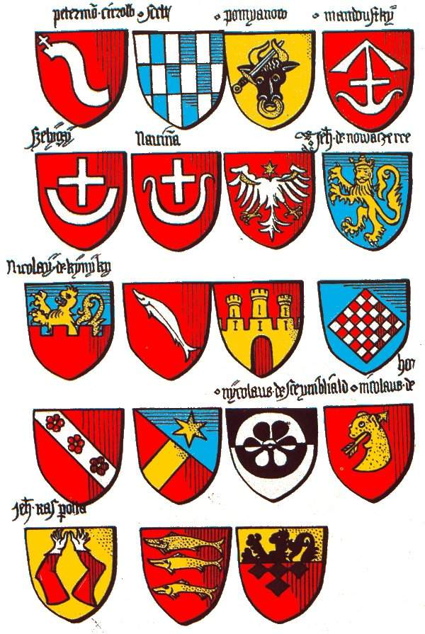 Folio 120v from armorials of the knights of the Order of the Golden Fleece (French Armorial équestre de la Toison d'or).